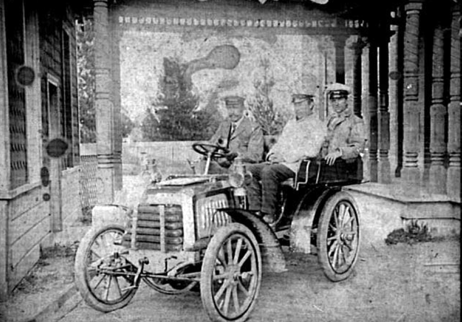 Mark Foy (1865-1950) (far right) in a Panhard, 1901